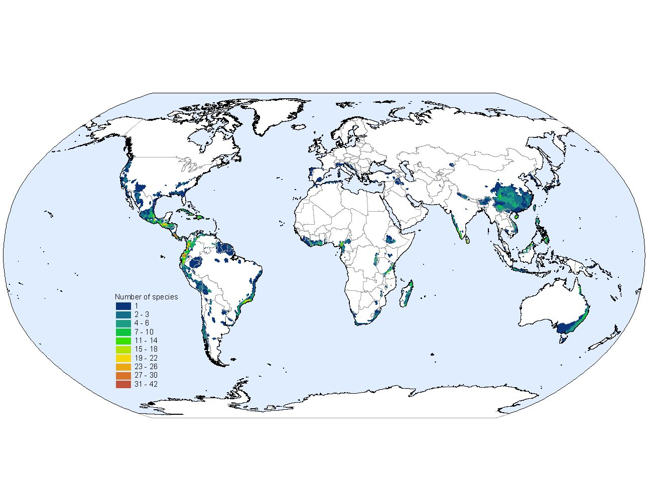 Map showing the distribution of threatened amphibians worldwide